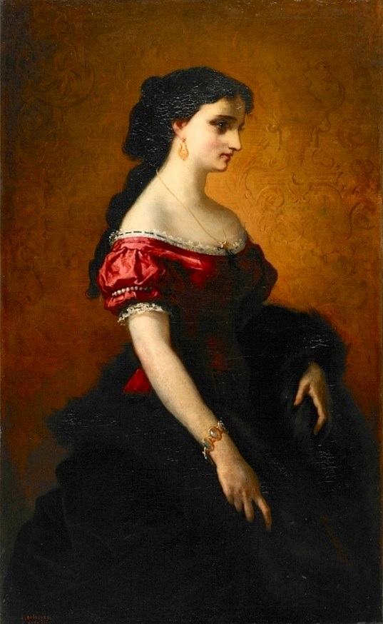 Portrait of Helena Sanguszko